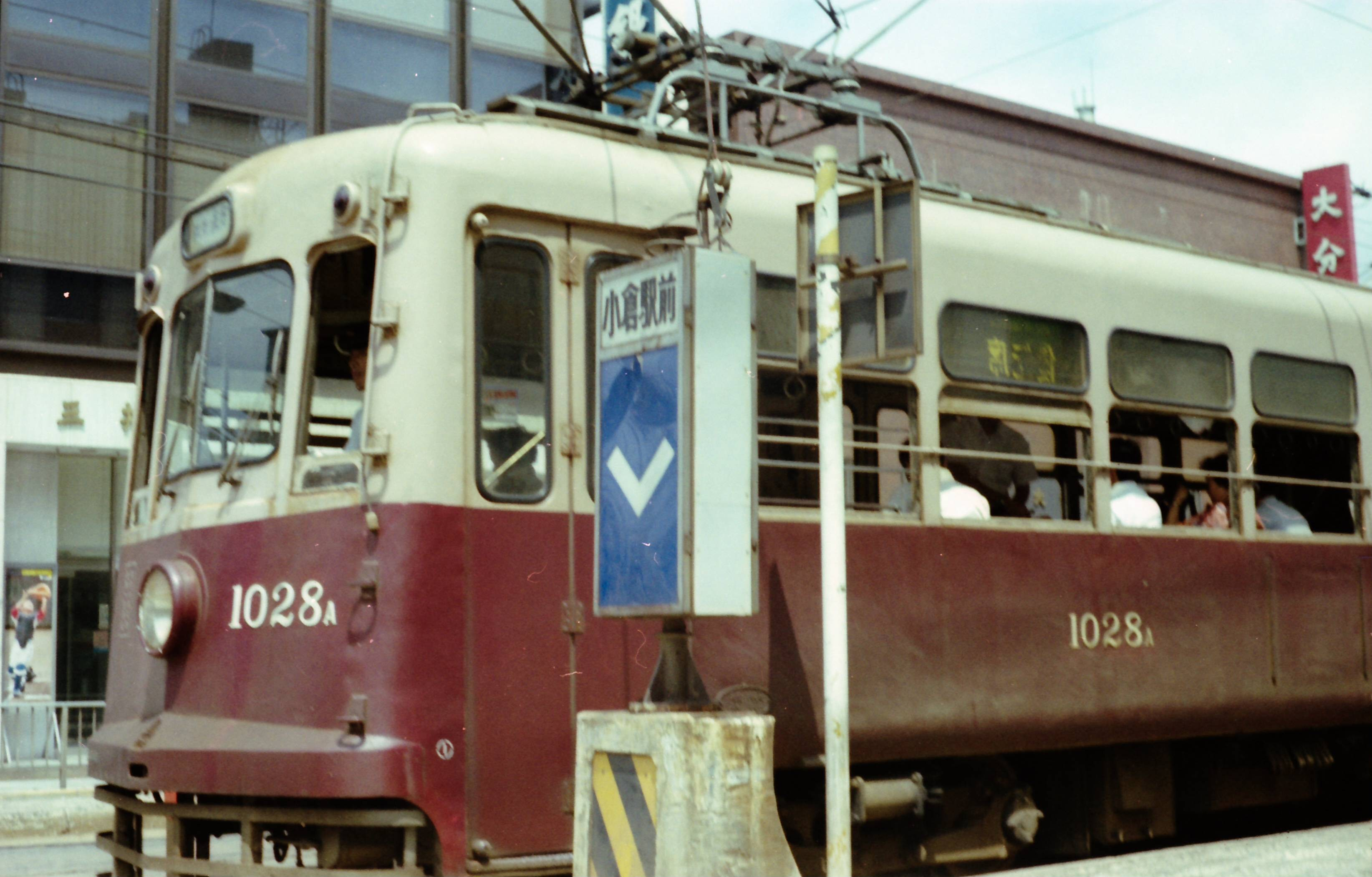 Nishi-Nippon-Railway Co.Ltd CityTram